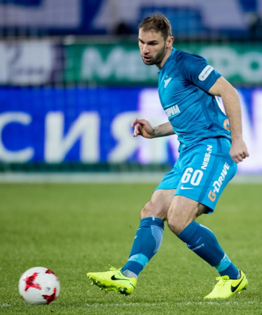 19.03.2017. Россия, Санкт-Петербург, «Петровский», Большая арена. РОСГОССТРАХ-Чемпионат России 2016/17, 20-й тур, «Зенит» — «Арсенал».